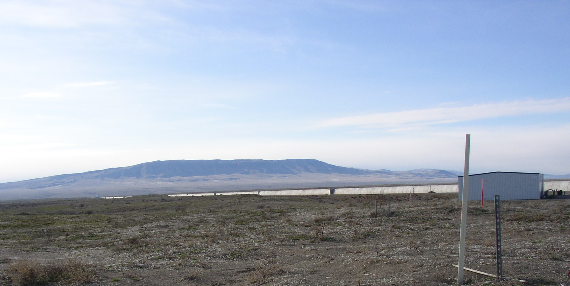 Western leg of LIGO on Hanford Reservation as seen from east.